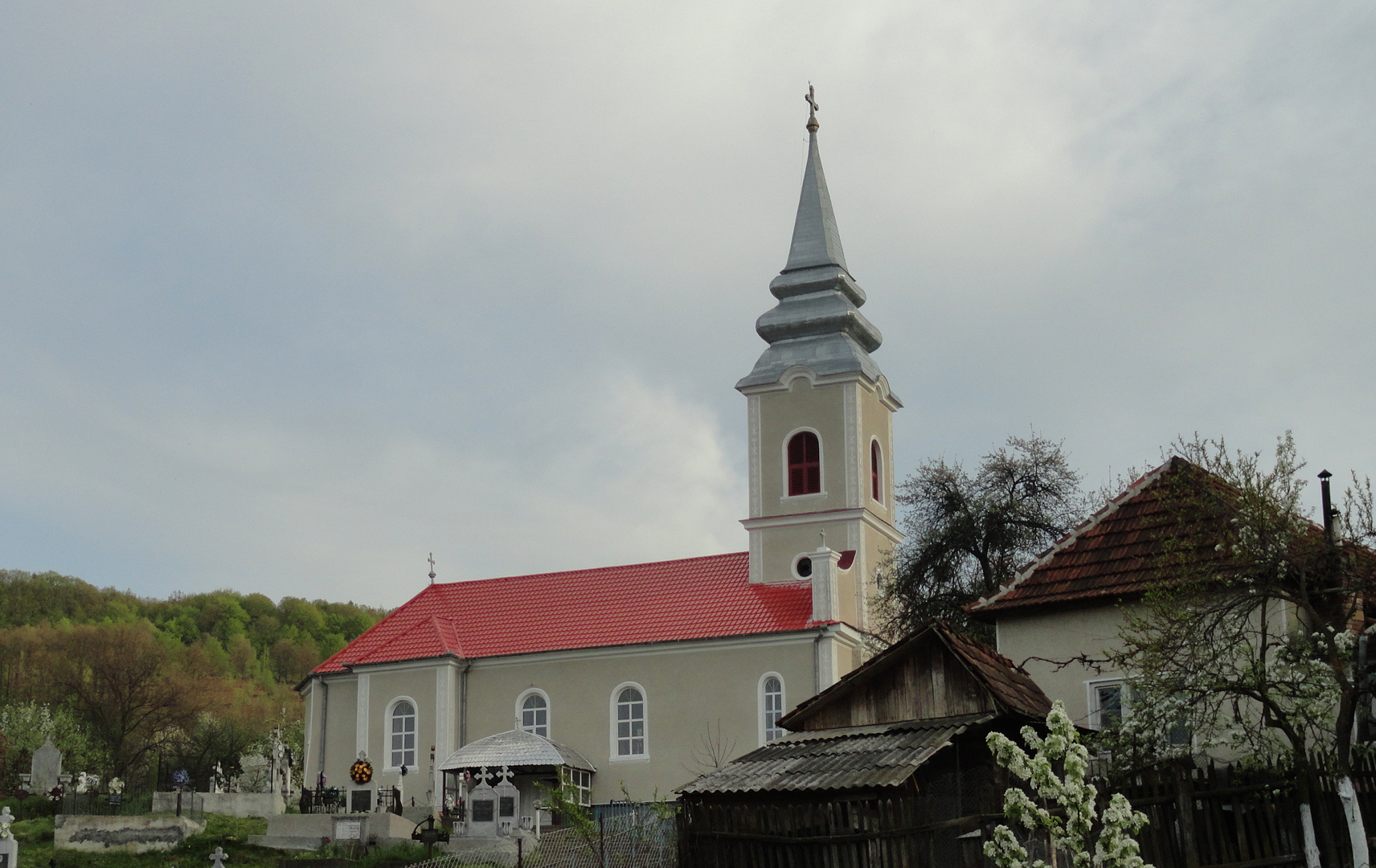 Romanian Orthodox Church - Șuncuiuș, Bihor